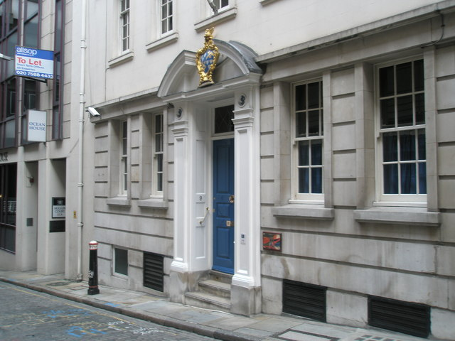 The Painter-Stainers Hall in Little Trinity Lane